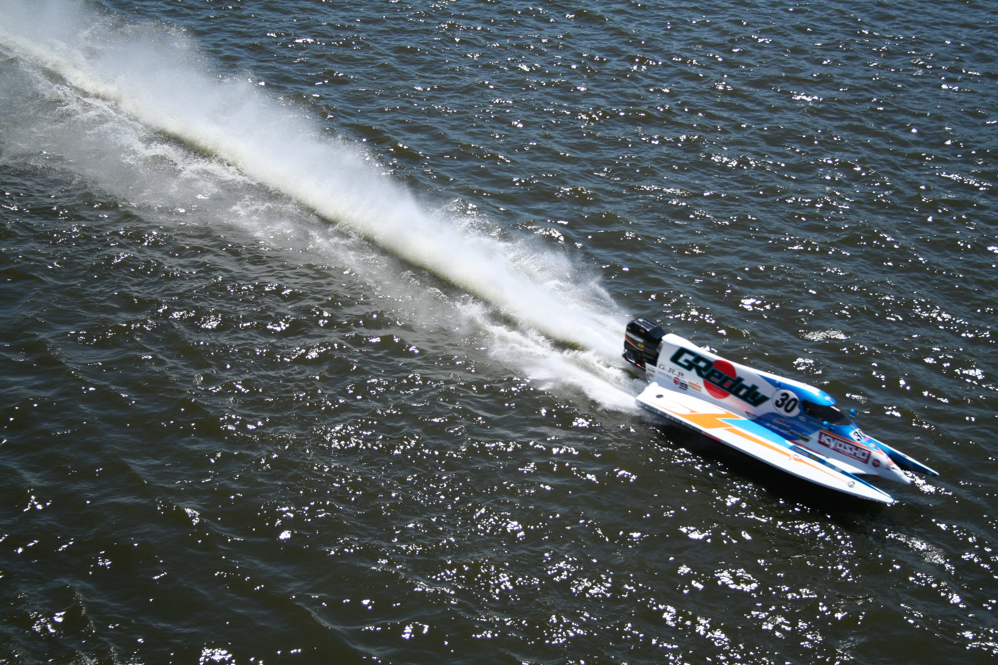 A competitor in the 2006 F1 ChampBoat Grand Prix racing series, on the Mississippi River in Minneapolis, Minnesota. See F1 Powerboat Racing. For other photos I took at this event, visit